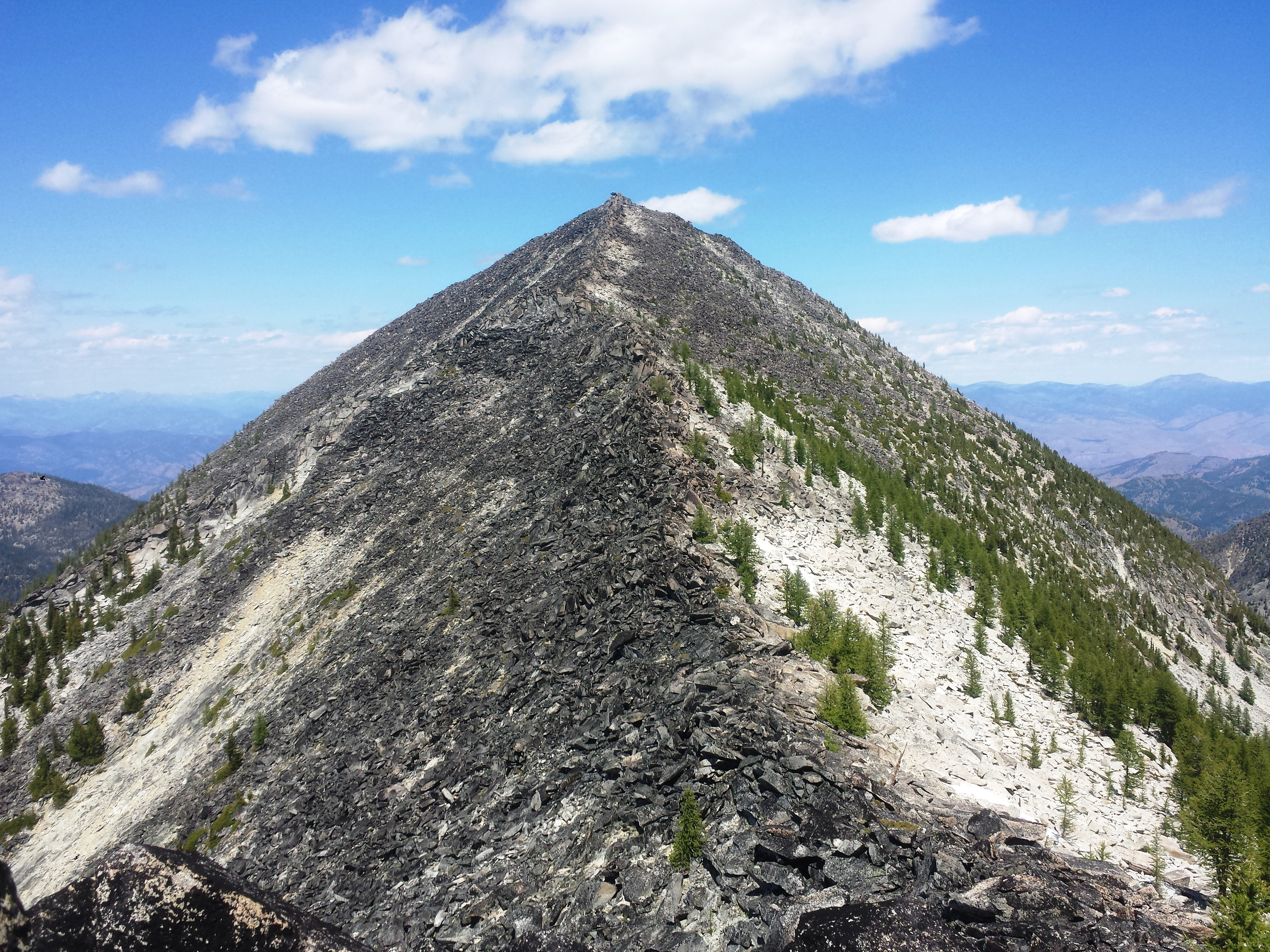 Elevation 2440 meters (8000 feet) South Slope of Hoodoo Peak Lake Chelan-Sawtooth Wilderness IMG_20150620_135632